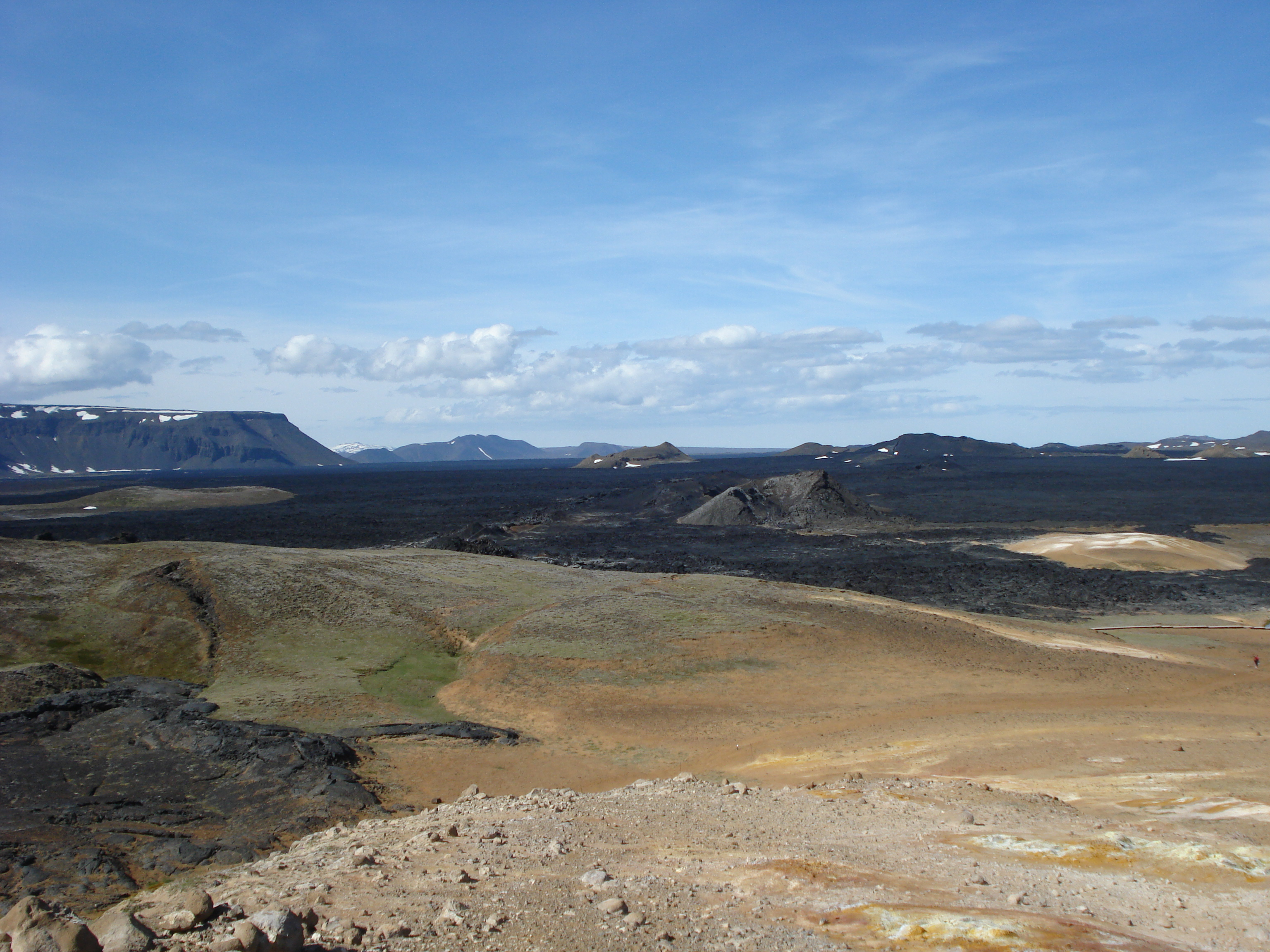 Leirhnjúkur, field of lava